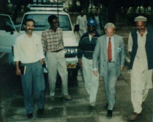 Members of the World Food Programme come to meet Ahmed Said Khadr and tour his agricultural projects. Mr. Baraka, the head of the World Food Programme's office in Jalalabad, his assistant Mr. Osman, Mr. A. Antee, the head of the WFP office in Peshawar, Mr. Khalaweter who oversaw WFP's operations in both Afghanistan and Pakistan, and Mr. Ayub, the director of NADA.